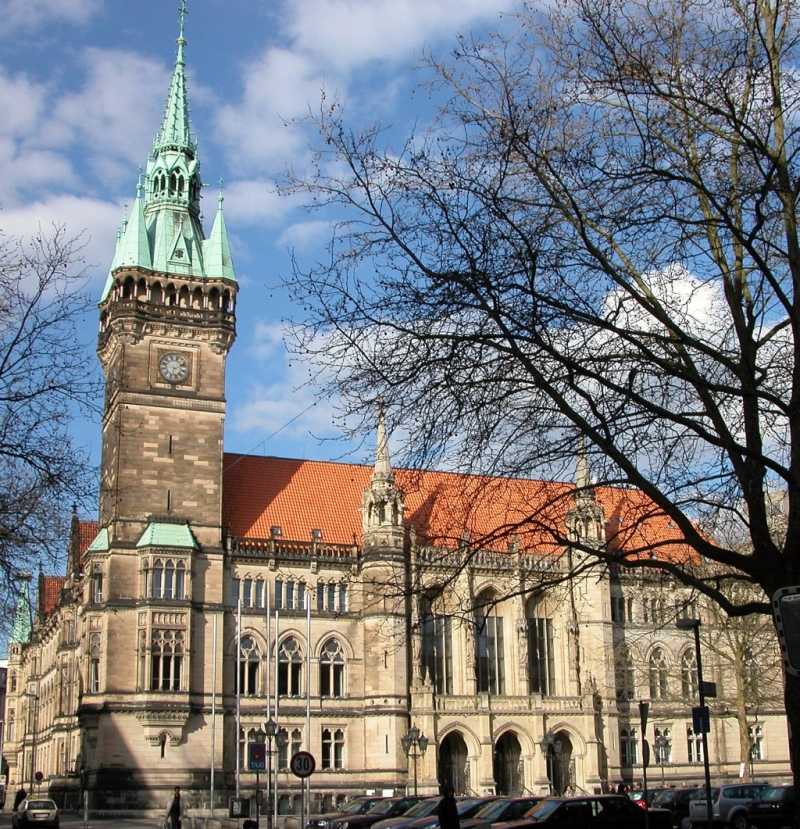 Braunschweig, Germany: New Townhall, seen from the South.)